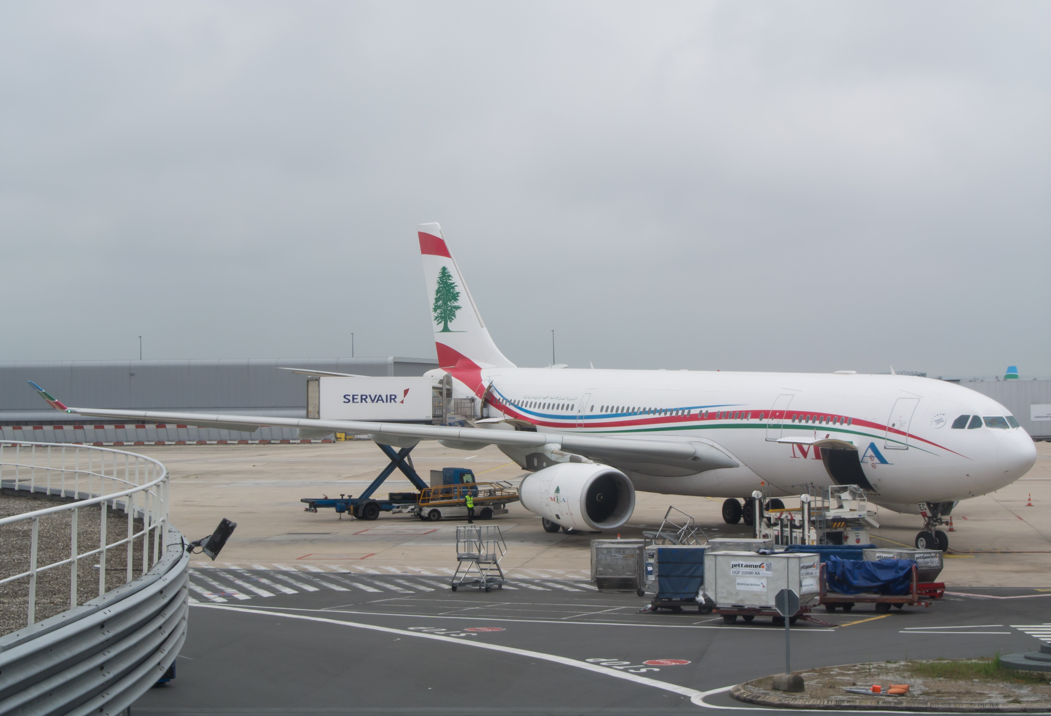 A Middle East Airlines MEA Airbus A330-243 (OD-MEC MSN-995) at Paris Roissy Charles de Gaulle Airport, Terminal 2C